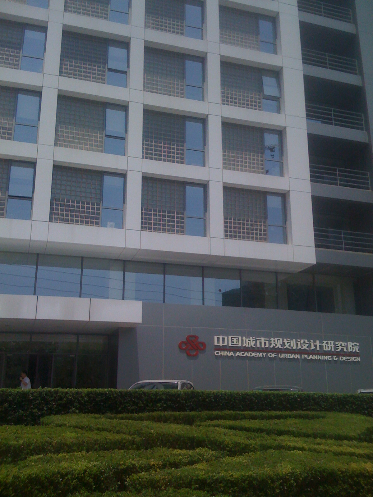 A photo taken of the front of the CAUPD office building in Beijing, China